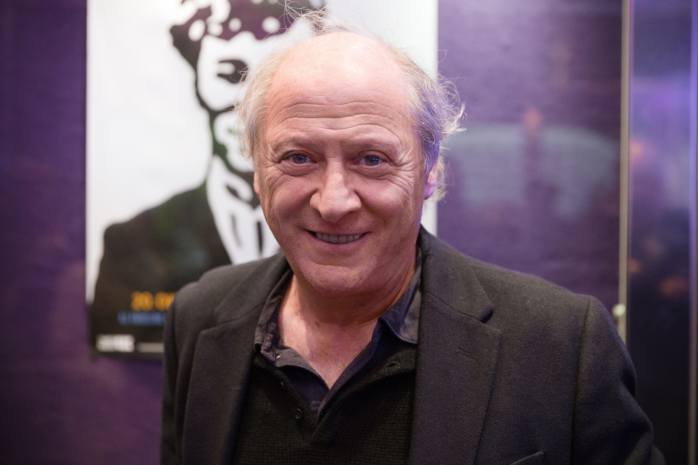 Robert Dornhelm at the opening evening of the Vienna International Film Festival 2016 at Gartenbaukino in Vienna.